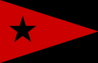 The flag of Kasnia, as seen in an early episode of Superman: The Animated Series